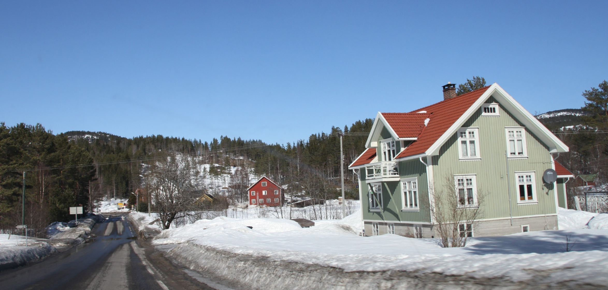 Image from the Dølemo settlement in Åmli municipality, upper Aust-Agder county, southeastern Norway. Highway 41 (RV 41).